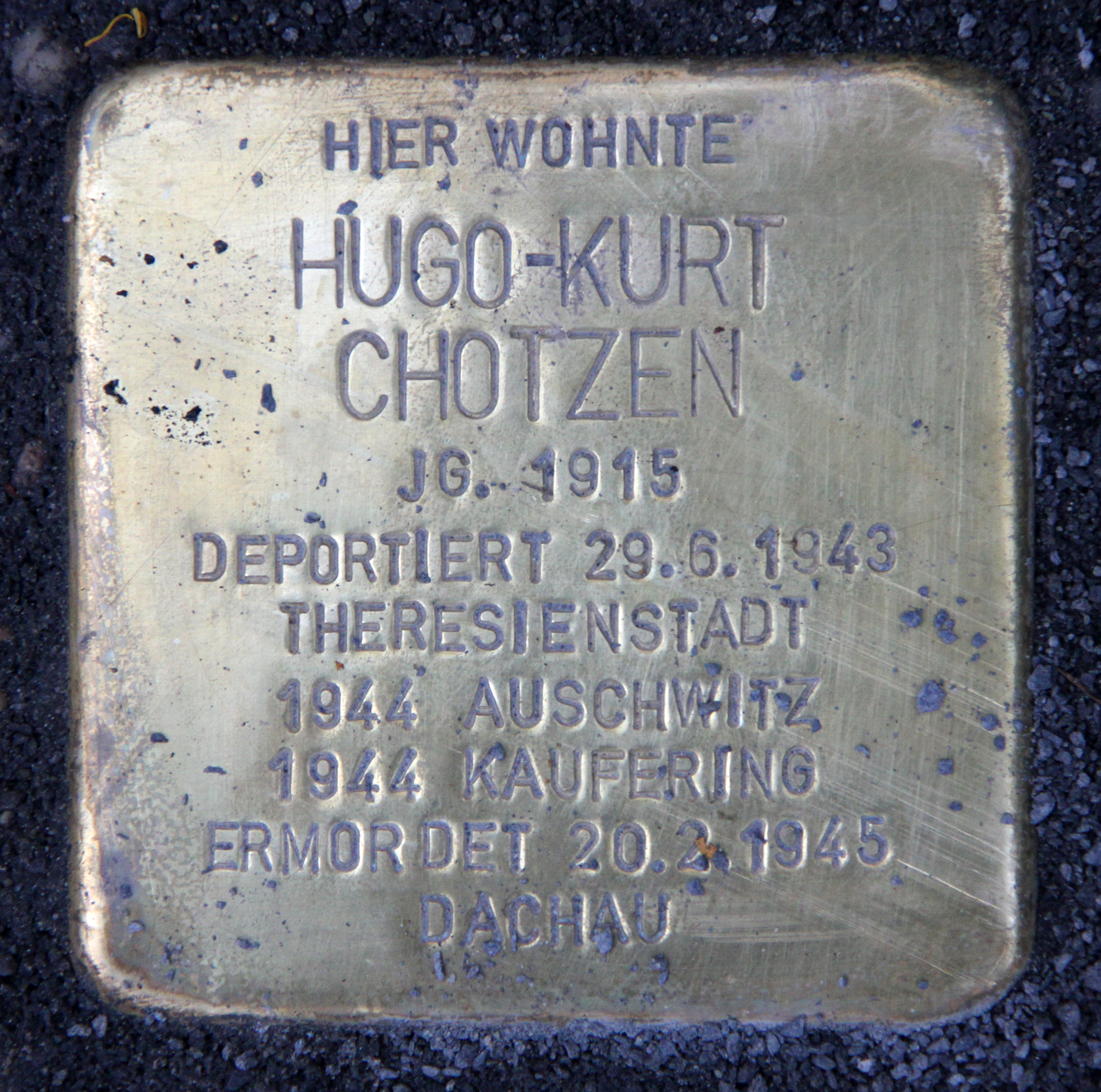 "Stolperstein" (stumbling block), Hugo-Kurt Chotzen, Johannisberger Straße 3, Berlin-Wilmersdorf, Germany